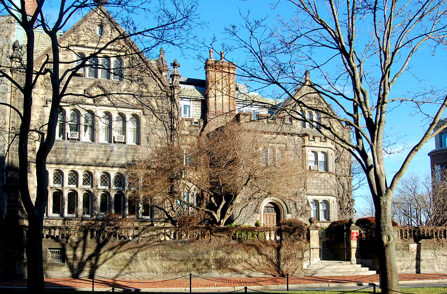 A wintertime view of The Castle at Boston University. Shows architecture without the ivy.